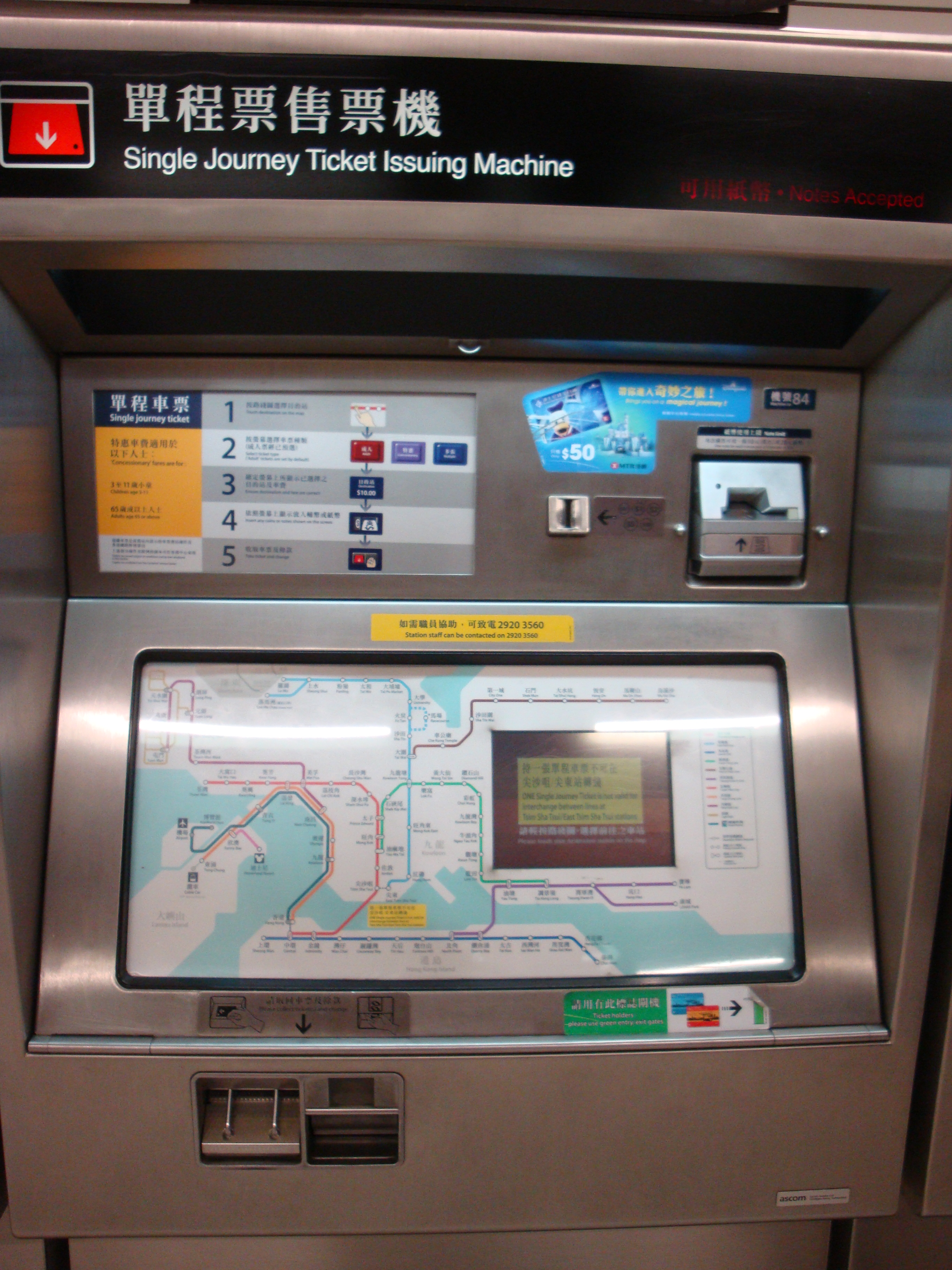 MTR Single Journey Ticket Issuing Machine 2009-8-15